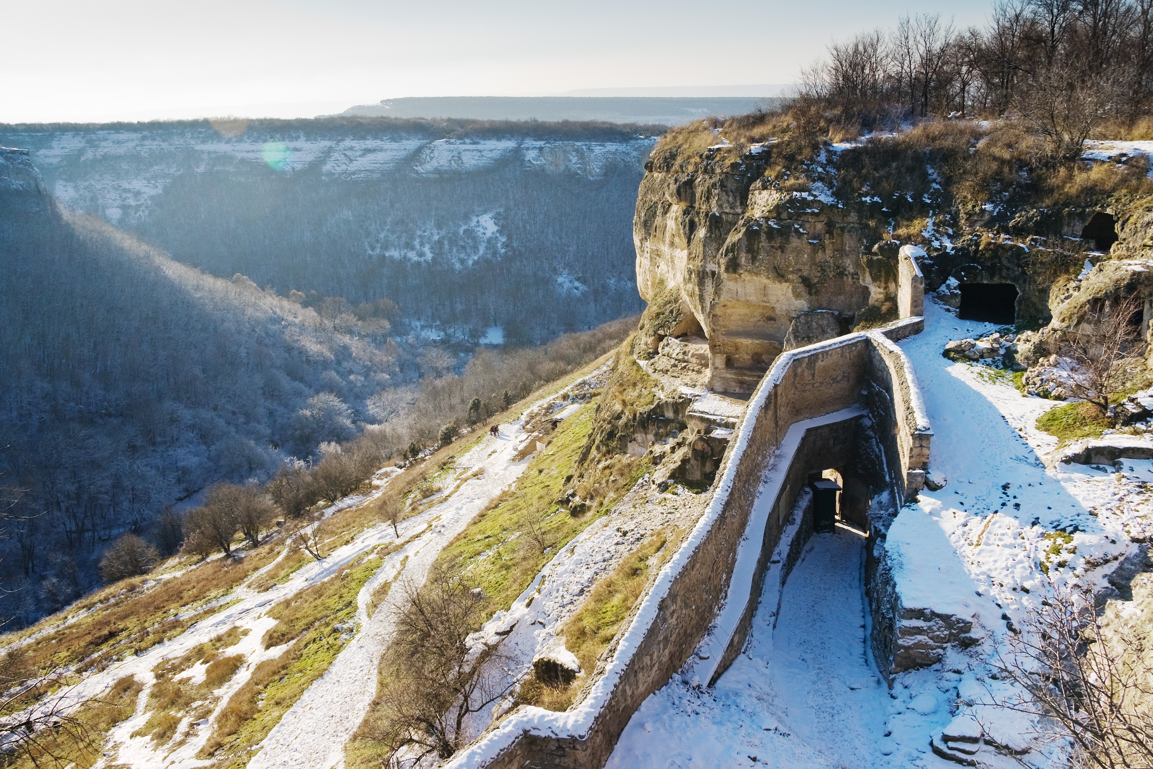 Çufut Qale, Crimea